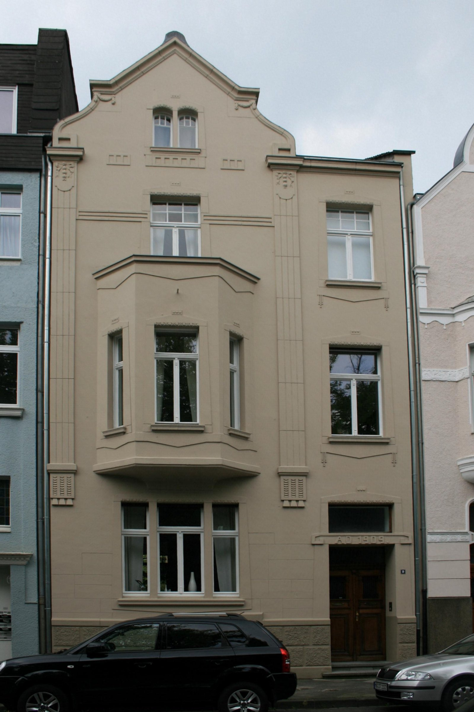 Cultural heritage monument No. B 137 in Mönchengladbach